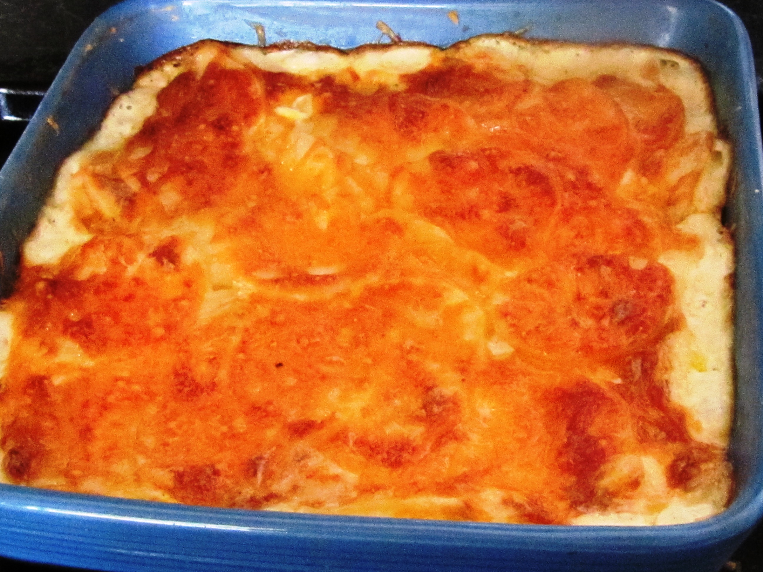 Gratin Dauphiniose is a traditional French dish of potatoes, garlic and cream.